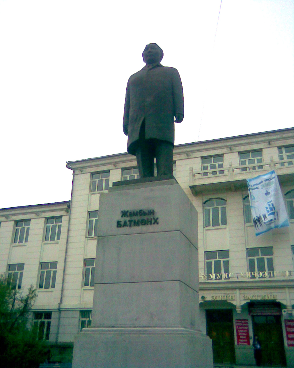 Statue of Jambyn Batmonkh outside the School of Economics of the National University of Mongolia